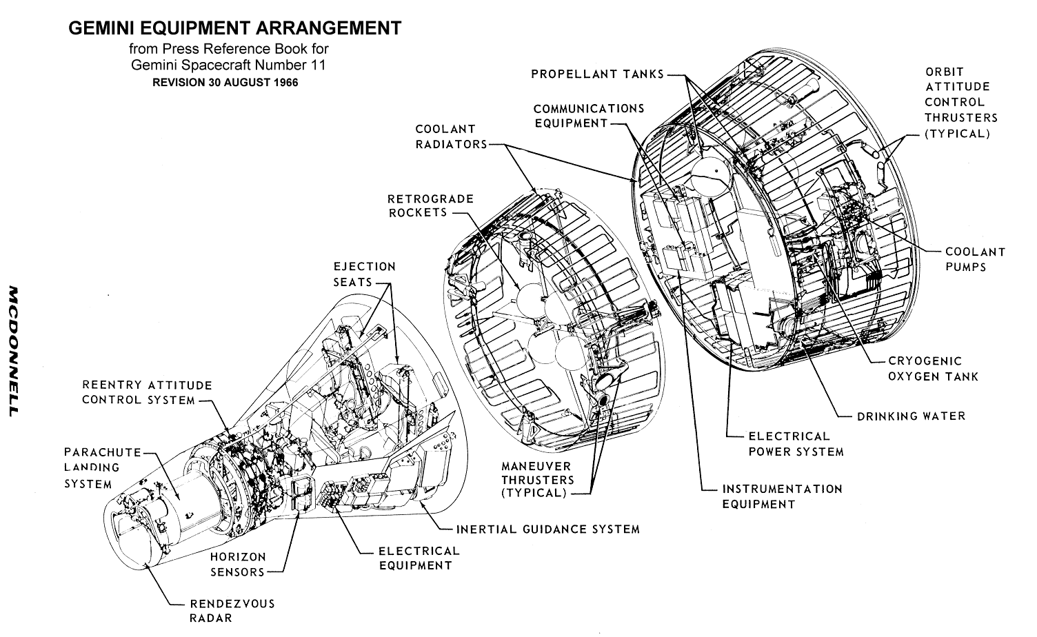 Gemini diagram